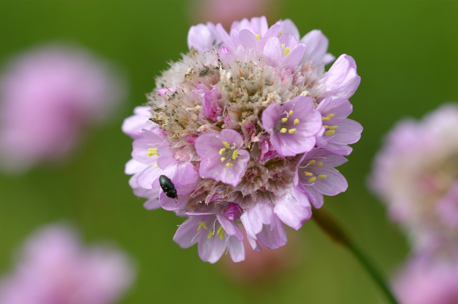 Close-up of an inflorescence of Armeria maritima; here the subspecies elongata.